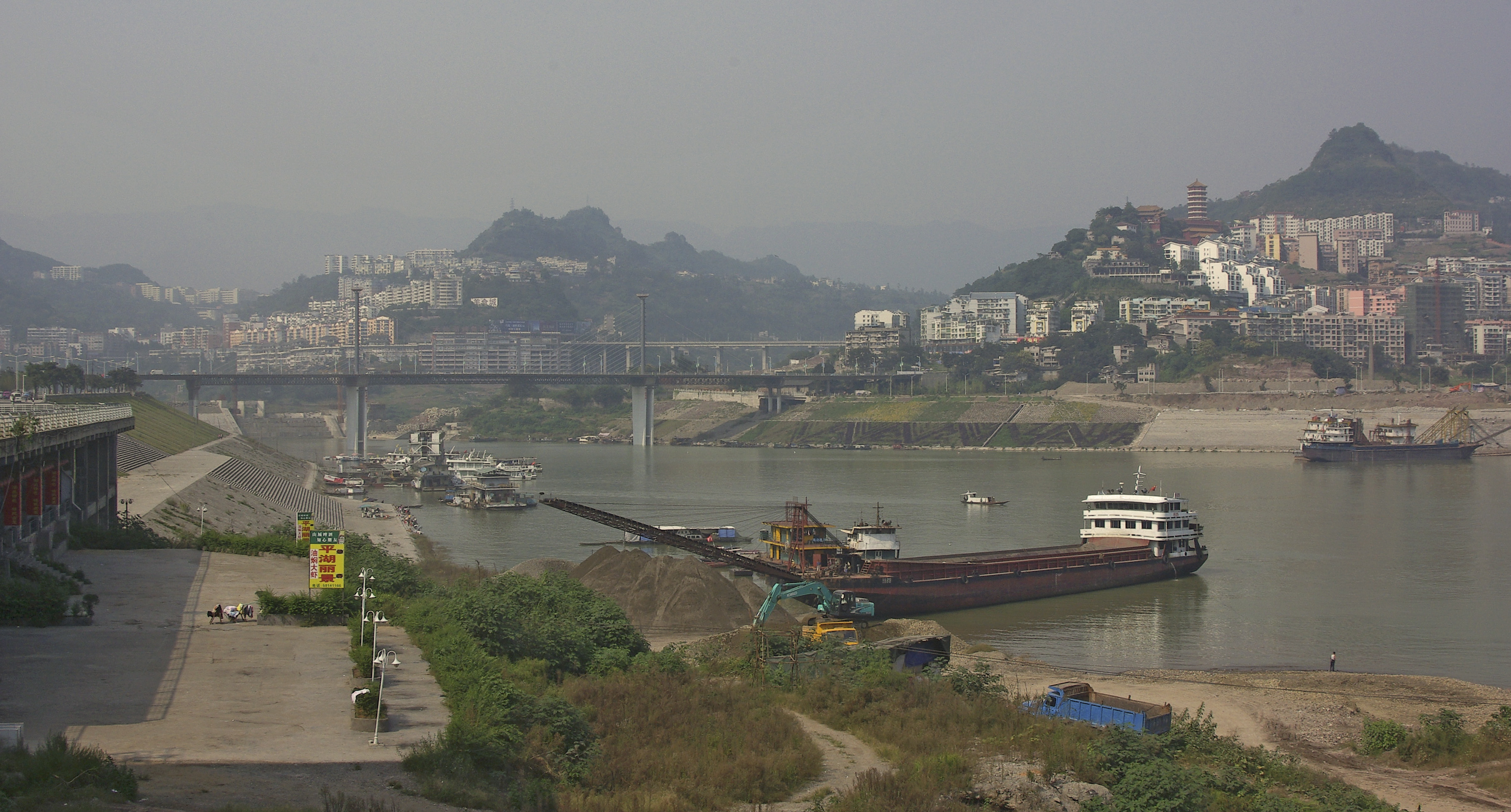 The Yanzgi River / Three Gorges reservoir at Wanzhou City. The water levels have risen dramatically because of the three gorges dam project, by as much as 100m in some areas. China 2008